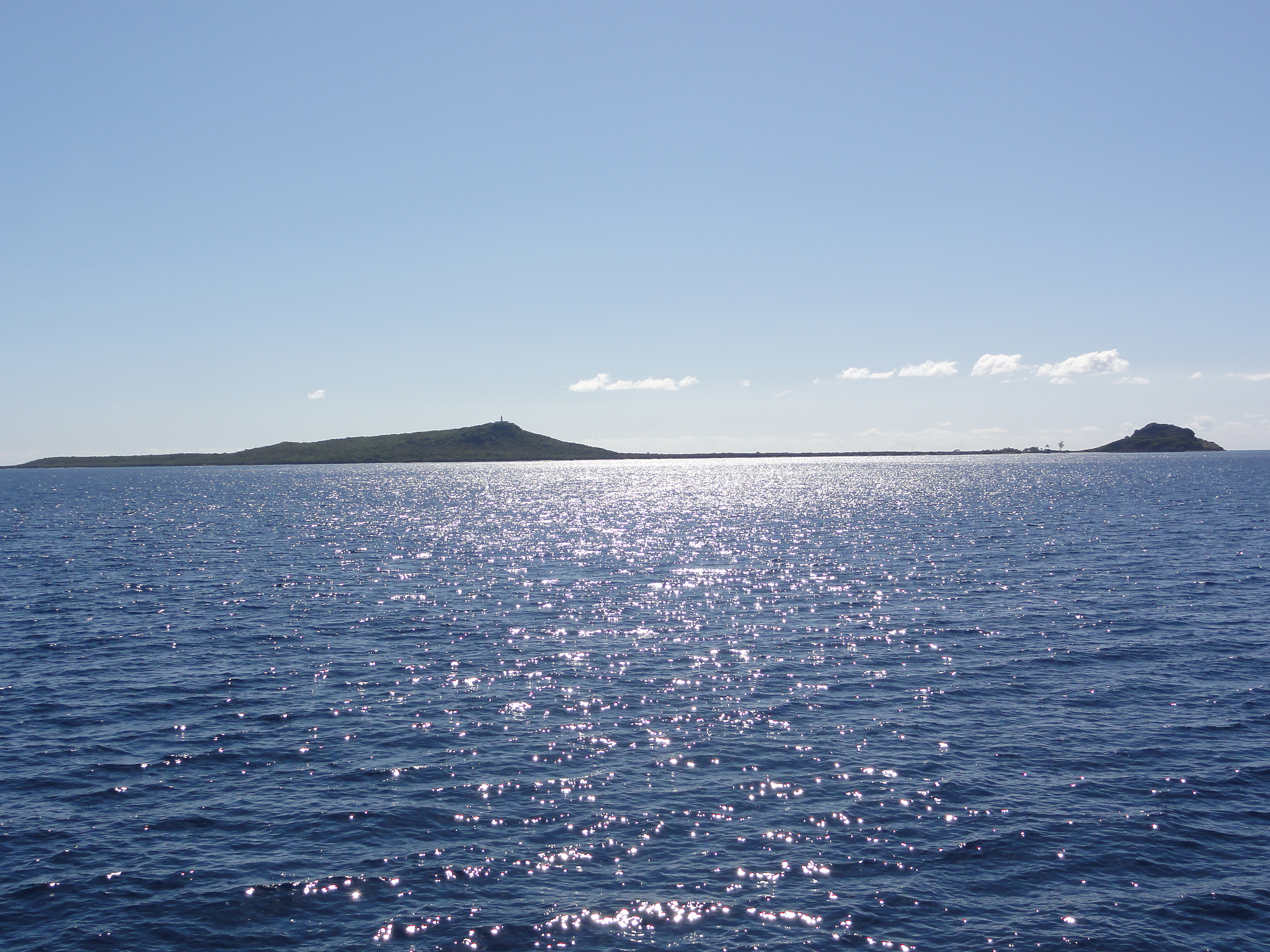 Isla Caja de Muertos, Ponce Puerto Rico, mirando hacia el Sureste